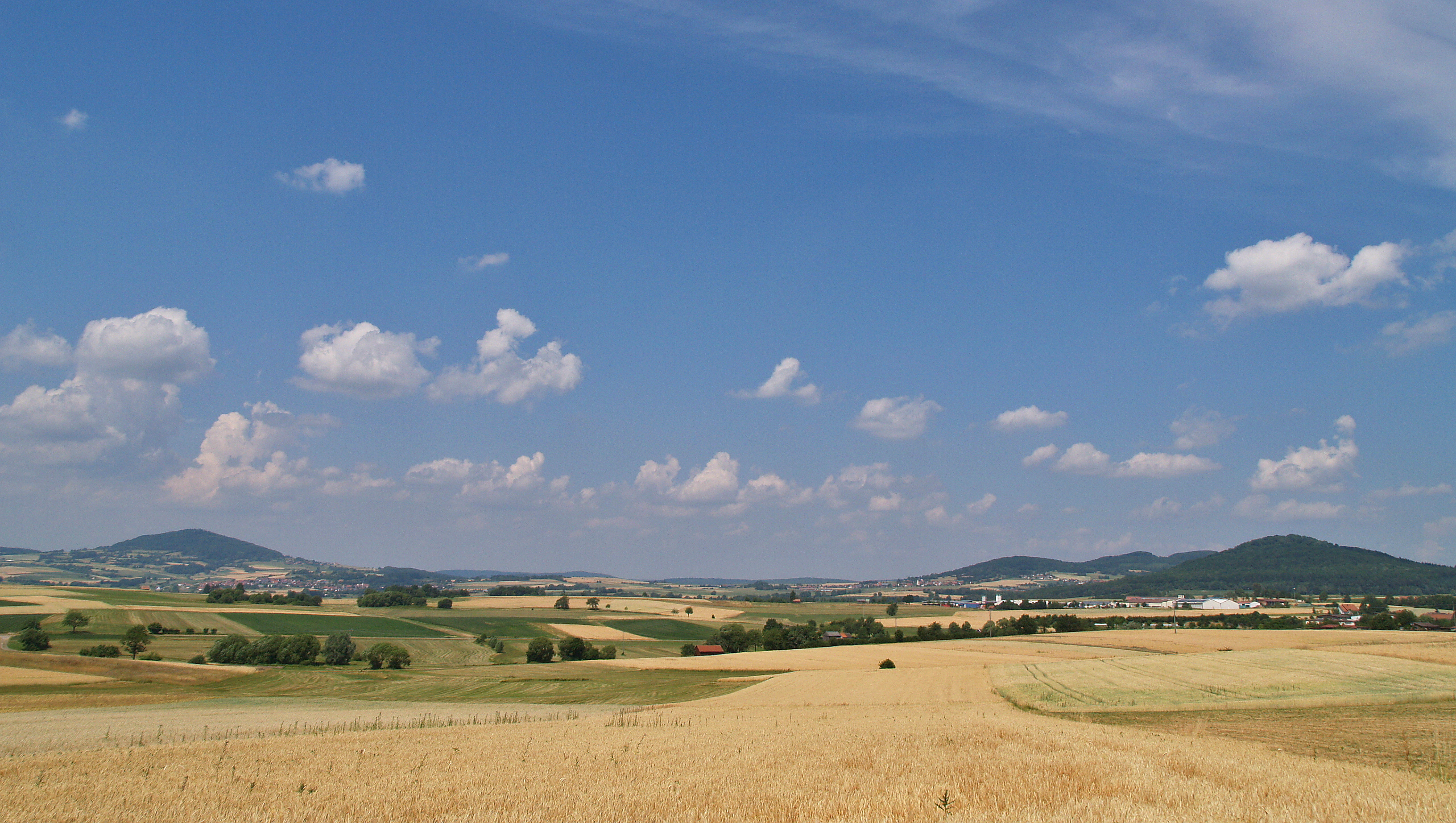 Mountains of the Brückenauer Kuppenrhön: Dreistelz (left) and Mettermich (right)